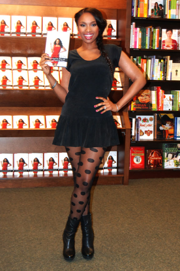 Jennifer Hudson signs copies of "Jennifer Hudson: I Got This: How I Changed My Ways and Lost What Weighed Me Down" at Barnes & Noble Books in Skokie (Chicago) on January 17, 2012. Photo by Adam Bielawski